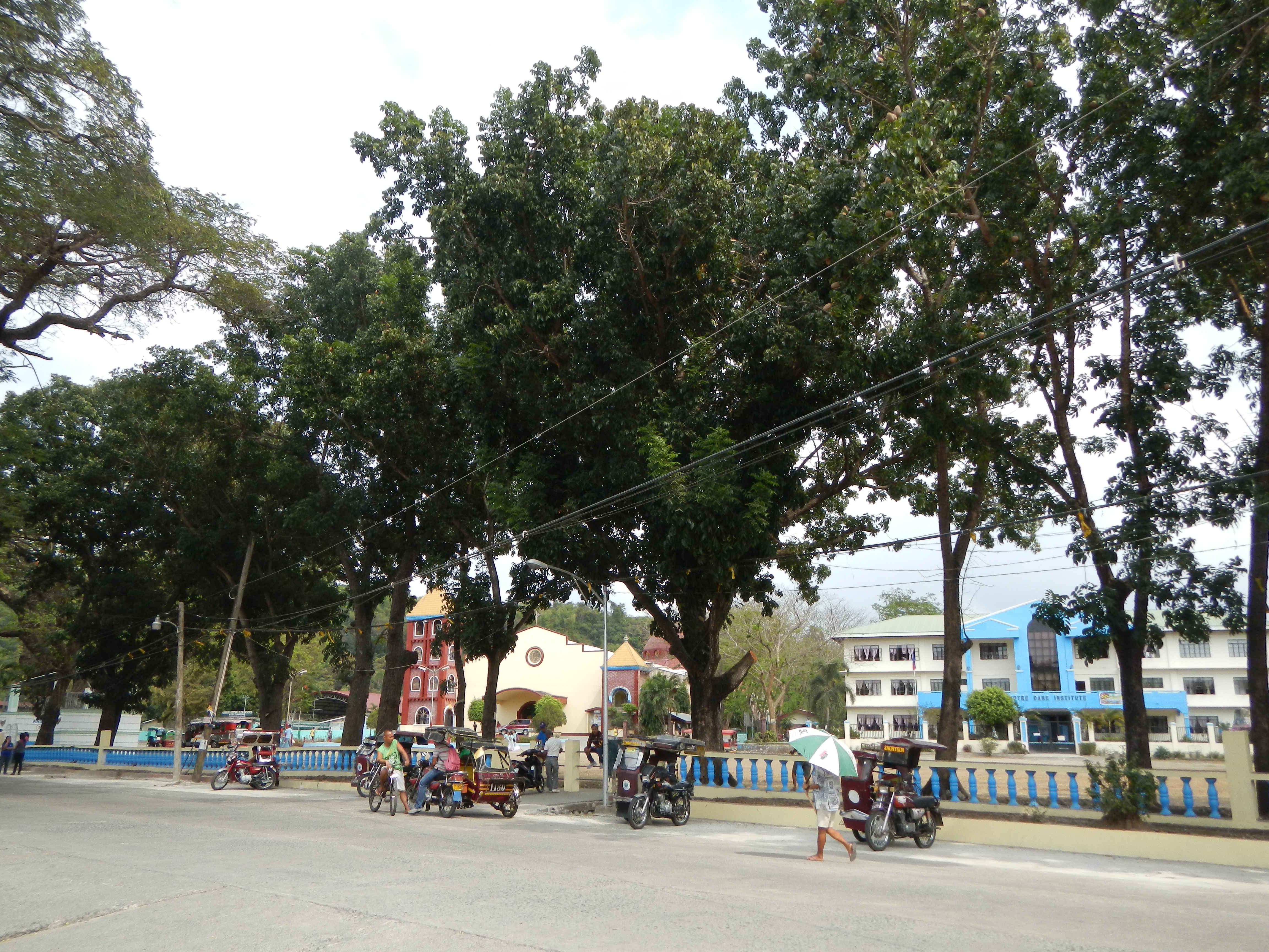 Photos of Saint Lucy Parish Church (Aringay, La Union) Roman Catholic Diocese of San Fernando de La UnionPoblacion [1] (Vicariate of St. Francis Xavier Vicar Forane: Father Raul S. Panay Aringay F-1741 2503 La Union, Philippines Titular: St. Lucy, Dec. 13 Parish Administrator: Father Romeo G. Lopez) in Town Proper of Aringay, La Union La Union Notre Dame Institute beside the Notre Dame High School, Town Hall and Municipal Auditorium and Town Plaza.[2], prominent are the Giant ageless historic Acacia trees surrounding the Town Proper.